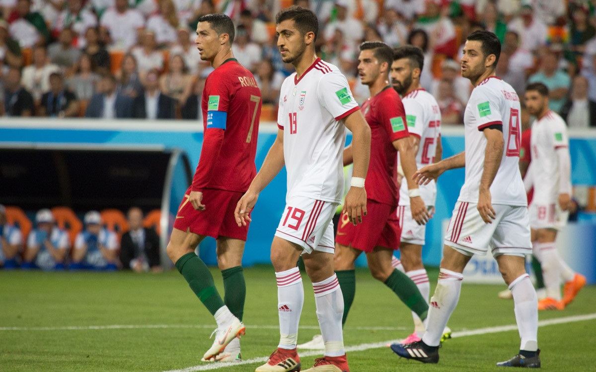 Iran-Portugal match, 2018 FIFA World Cup Group B